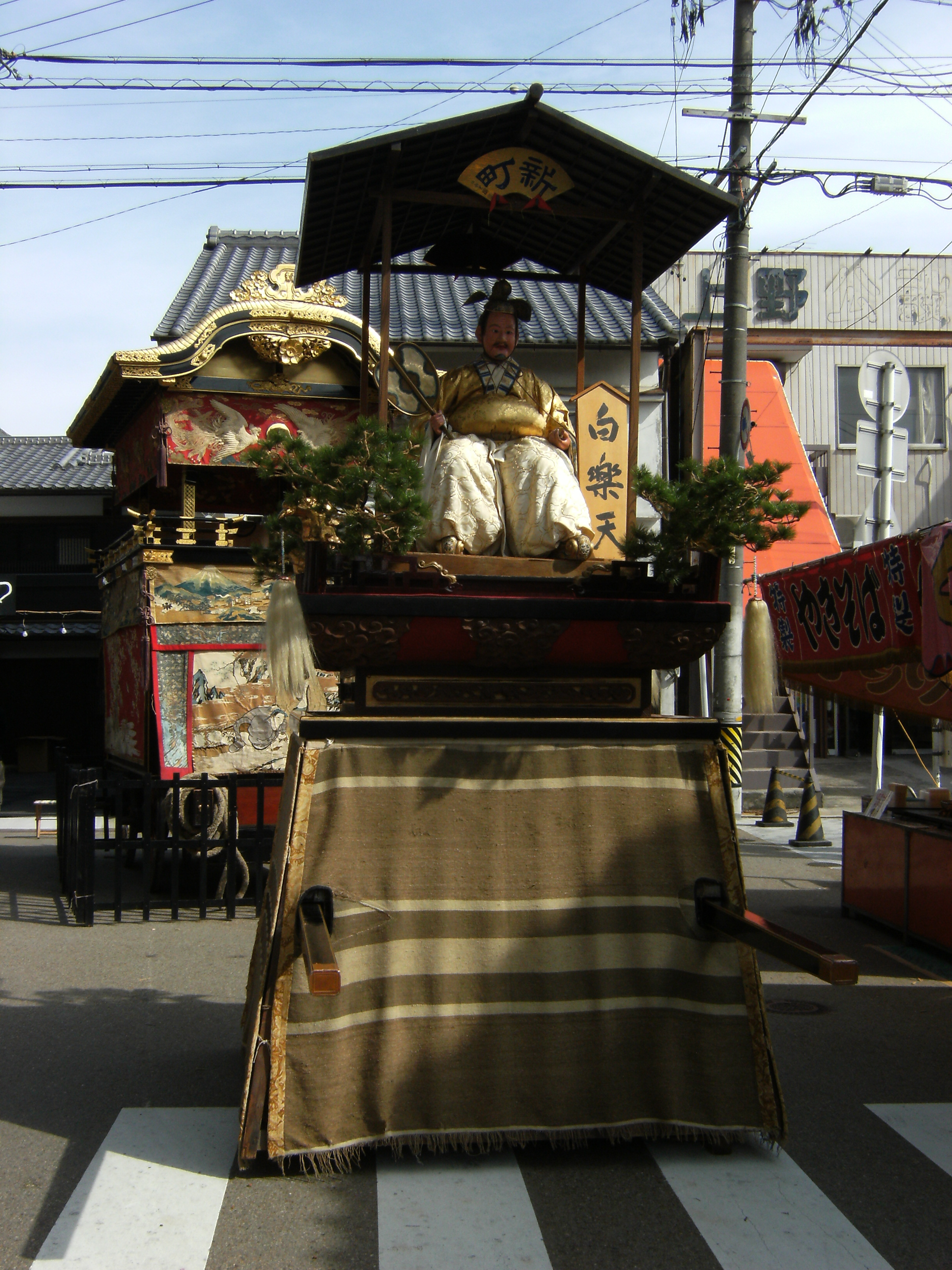 This is a picture of Ueno-Tenzin festival,which is one of Japanese traditional festivals.It is held in Iga city,Mie.